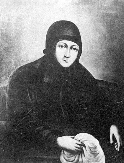 Princess Tarakanova as monk Dosifeya